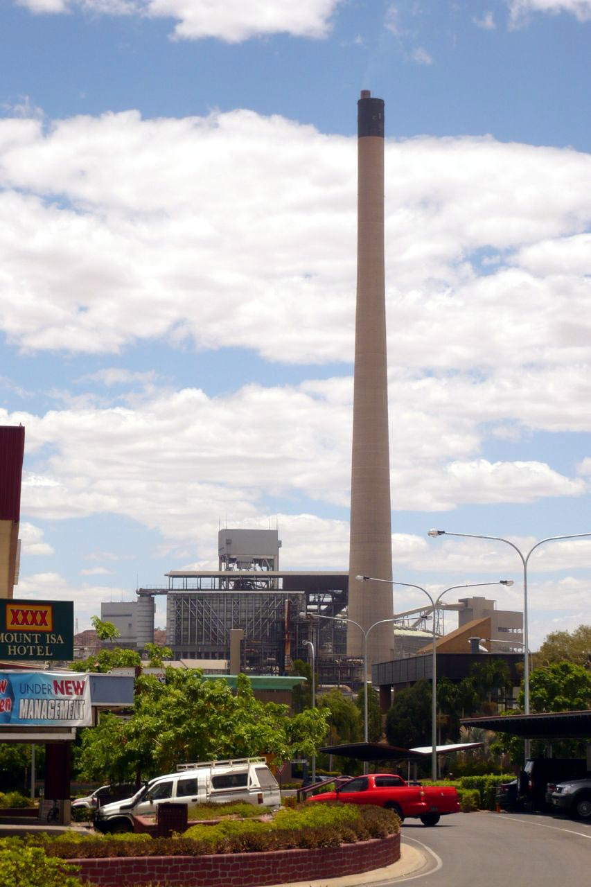 Mount Isa, Queensland